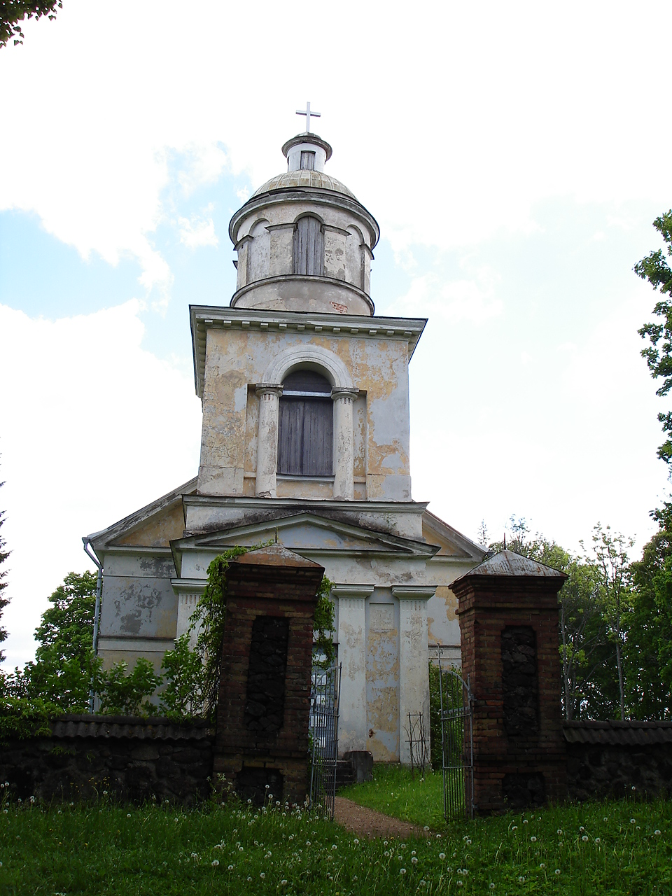 church